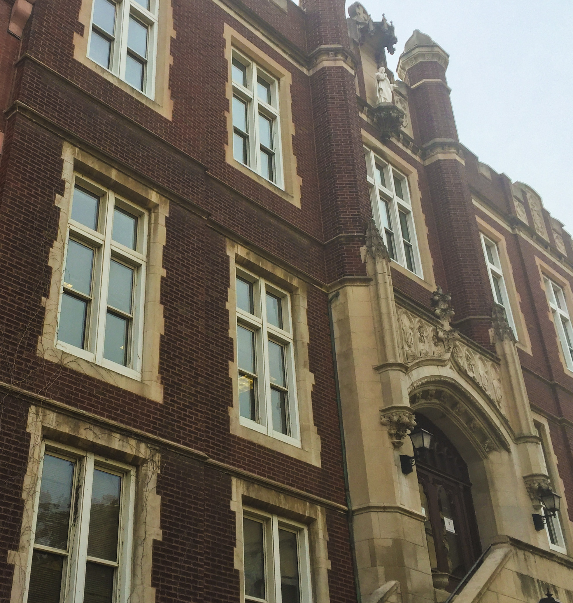 O'Neil Hall at St. Louis University, the location of Cooperative Institute for Precipitation Systems